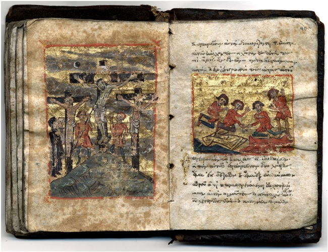 two illustrated pages from Mark